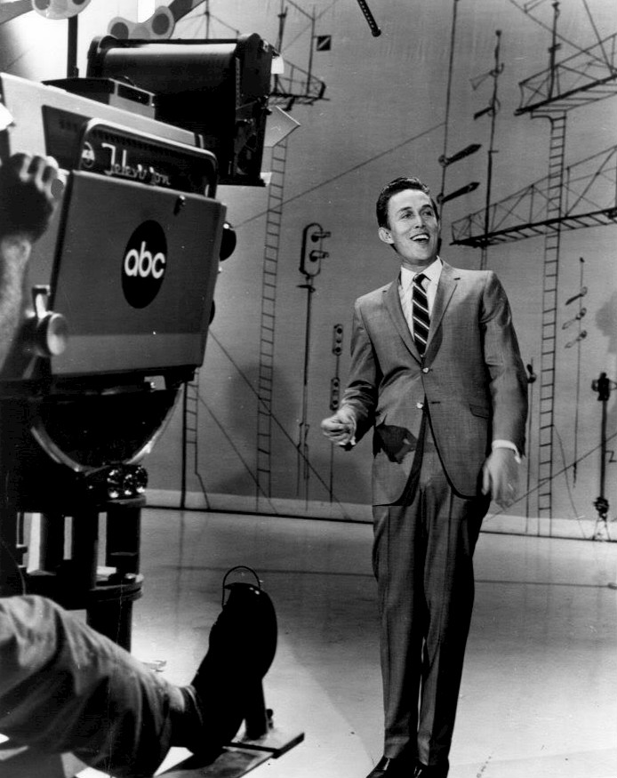 Photo of Jimmy Dean from his television program The Jimmy Dean Show.